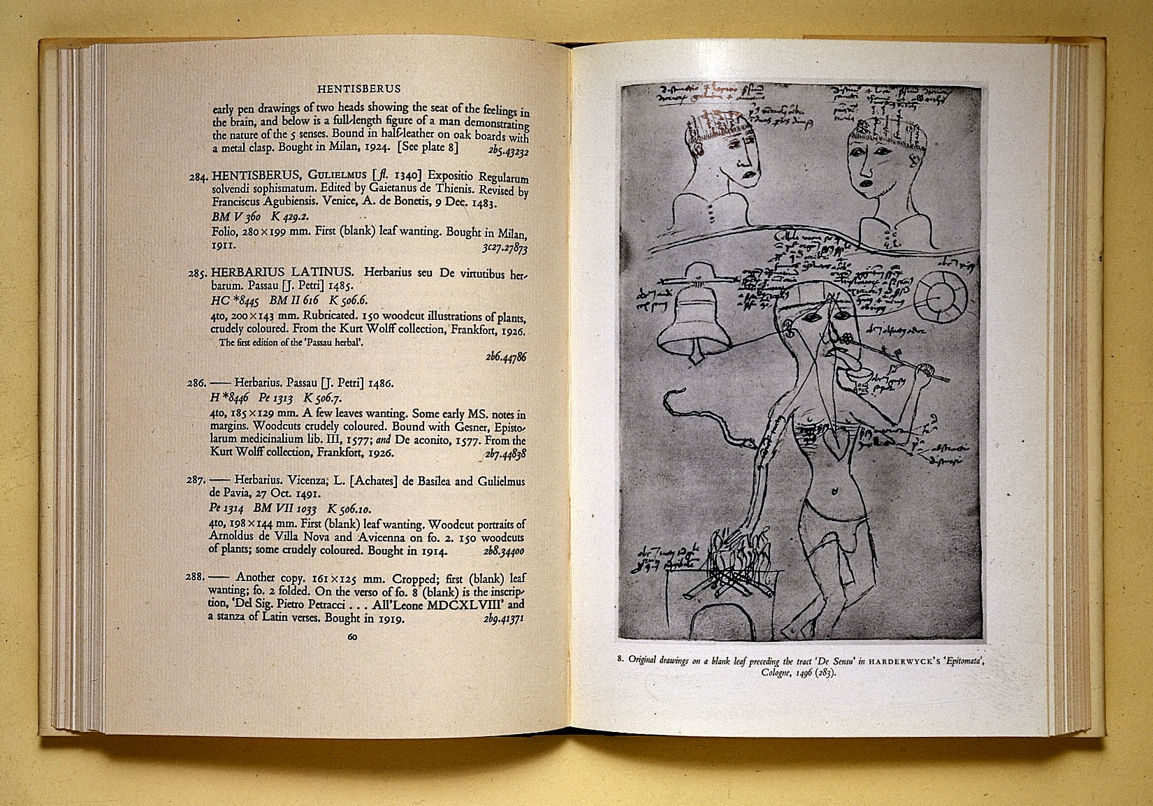 Page 60, figure 8 General Collections Keywords: Wellcome Historical Medical Museum; Wellcome Publications